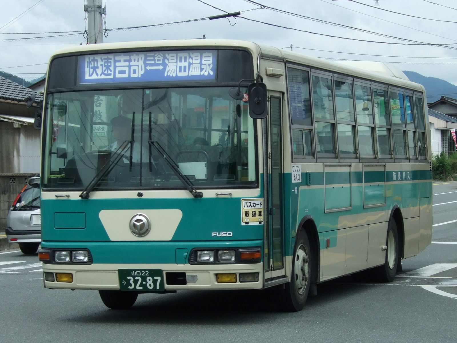 Company:Bocho Kotsu Use:transit bus Car license:山口22 う 3287 Chassis manufacturer:Mitsubishi Motors Coachbuilder:Mitsubishi FUSO Bus Manufauturing Location:at Nisseki-Iriguchi intersection, Yamaguchi City, Yamaguchi, Japan.